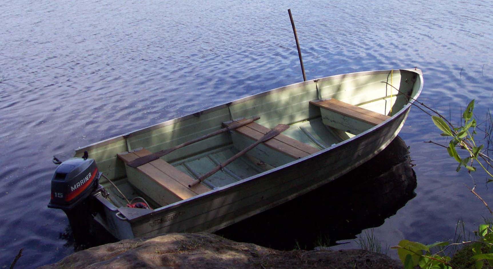 This is a picture of a small aluminum fishing boat.